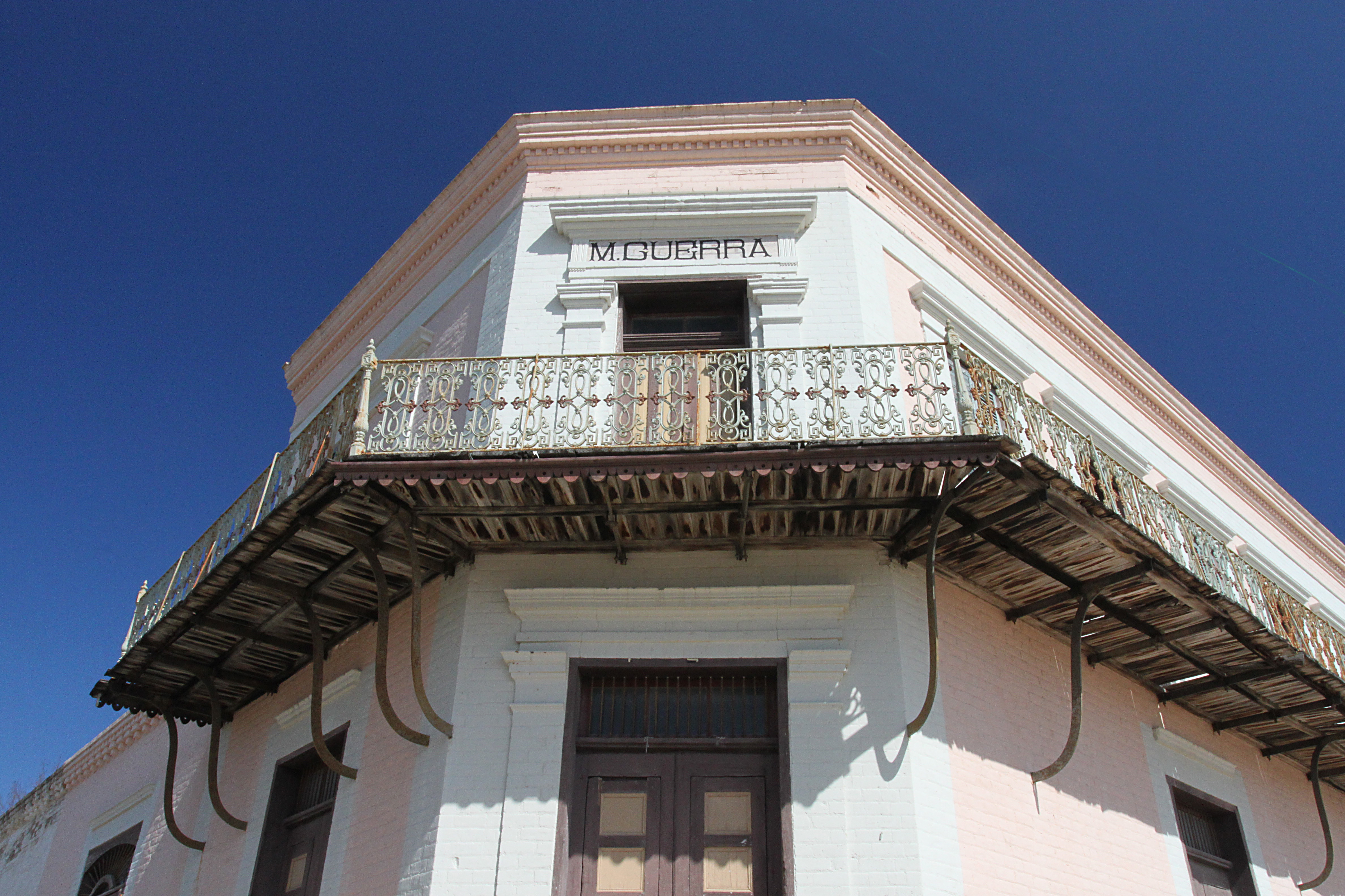 TEXAS & SOUTHERN NM BIRDS & STUFF